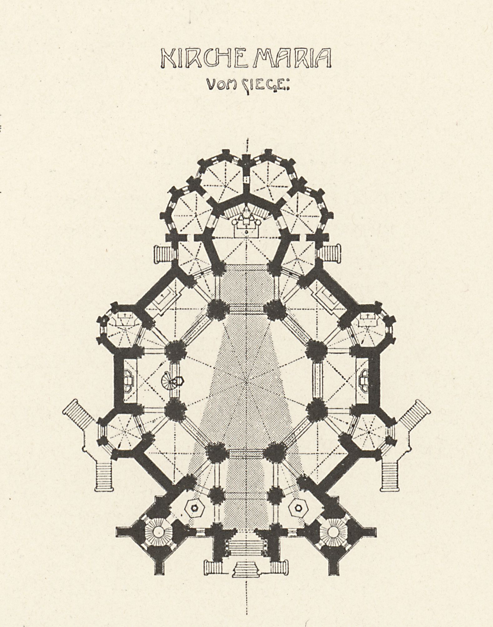 Moderne im Kirchenbau, Pfarrkirche Währing, Wien Bd. III Heft 5, 6, 7 Concept, not realized Scanprojekt Bundesdenkmalamt Österreich This scan or this PDF-file was created within the Austrian Wikipedia-project Denkmalpflege Österreich (German only) supported by Wikimedia Germany and Wikimedia Austria as part of the Wikipedia community-project to collect public domain documents from the library of the Heritage Monuments Board of Austria. This document describes or depicts an object which is located in Austria today. Send requests for uncompressed scans to Hubertl. This work is in the public domain in the United States, and those countries with a copyright term of life of the author plus 100 years or less. This file has been identified as being free of known restrictions under copyright law, including all related and neighboring rights.